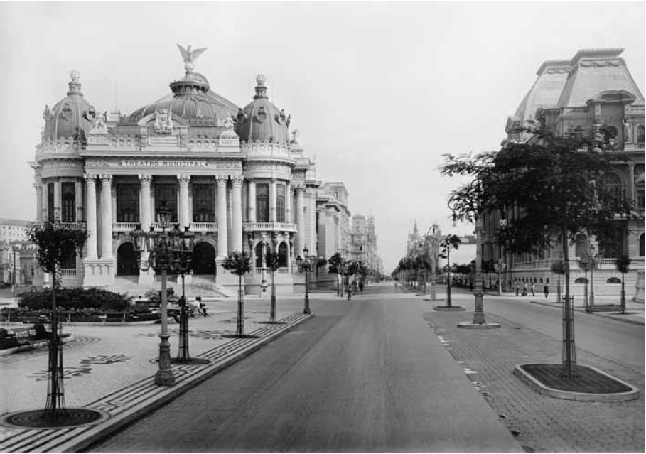 View of Theatro Municipal and Avenida Central in Rio de Janeiro, Brazil.